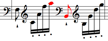 Liszt's La Campanella Étude. The 35-half step skip in the left hand 7 measures into the Più mosso.